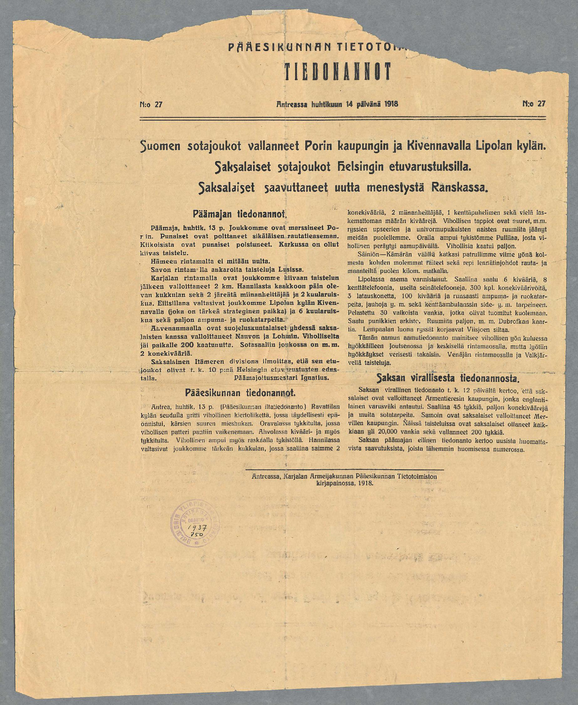 1918 Finnish Civil War. White Army Notice o 27, dated in Antrea 14 April 1918. Headlines: "Finnish troops have taken the city of Pori and the Lipola village in Kivennapa", "German troops closing Helsinki", "German troops reached new success in France"